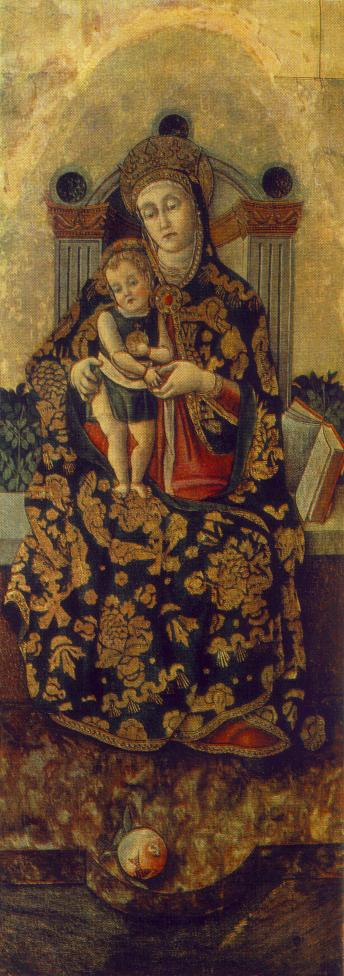 Madonna with the Child